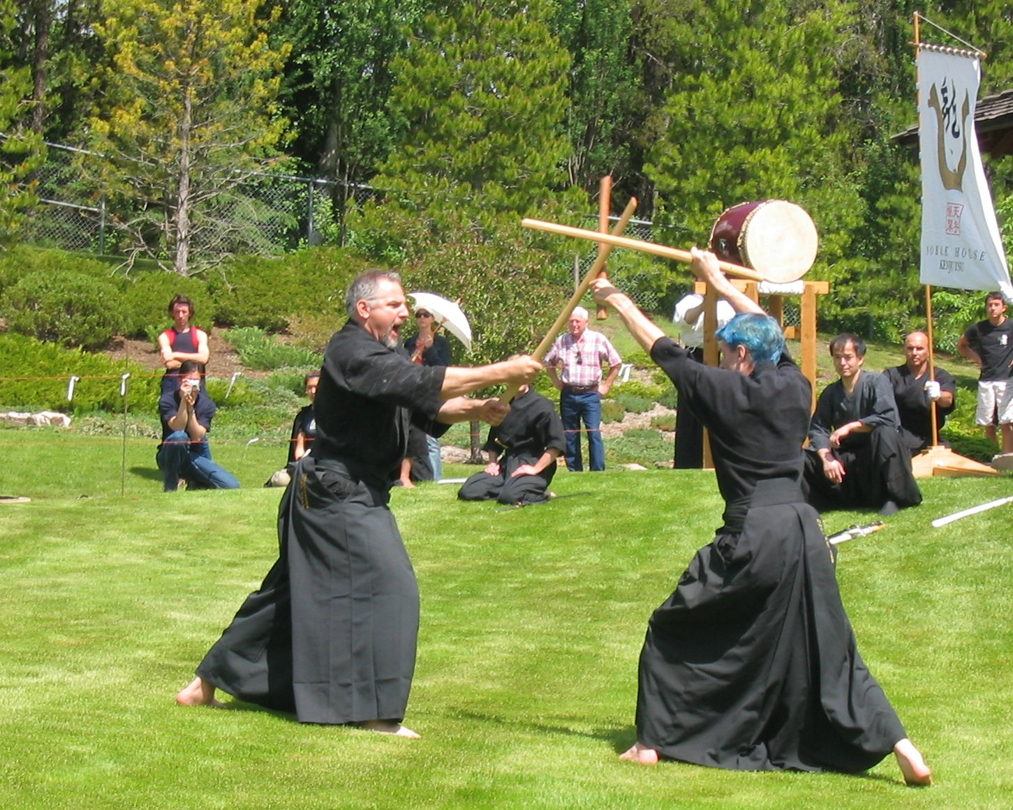 Kenjutsu at the Japanese Garden in Devonian Botanical Garden.